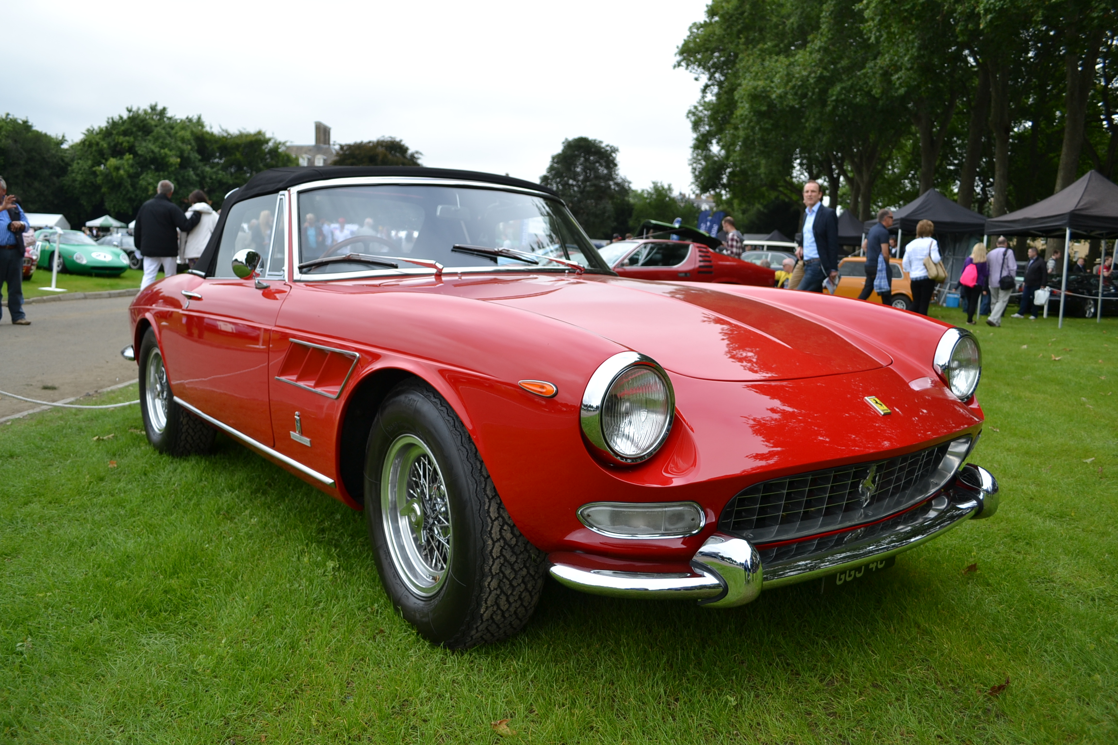 Chelsea Auto Legends 2012